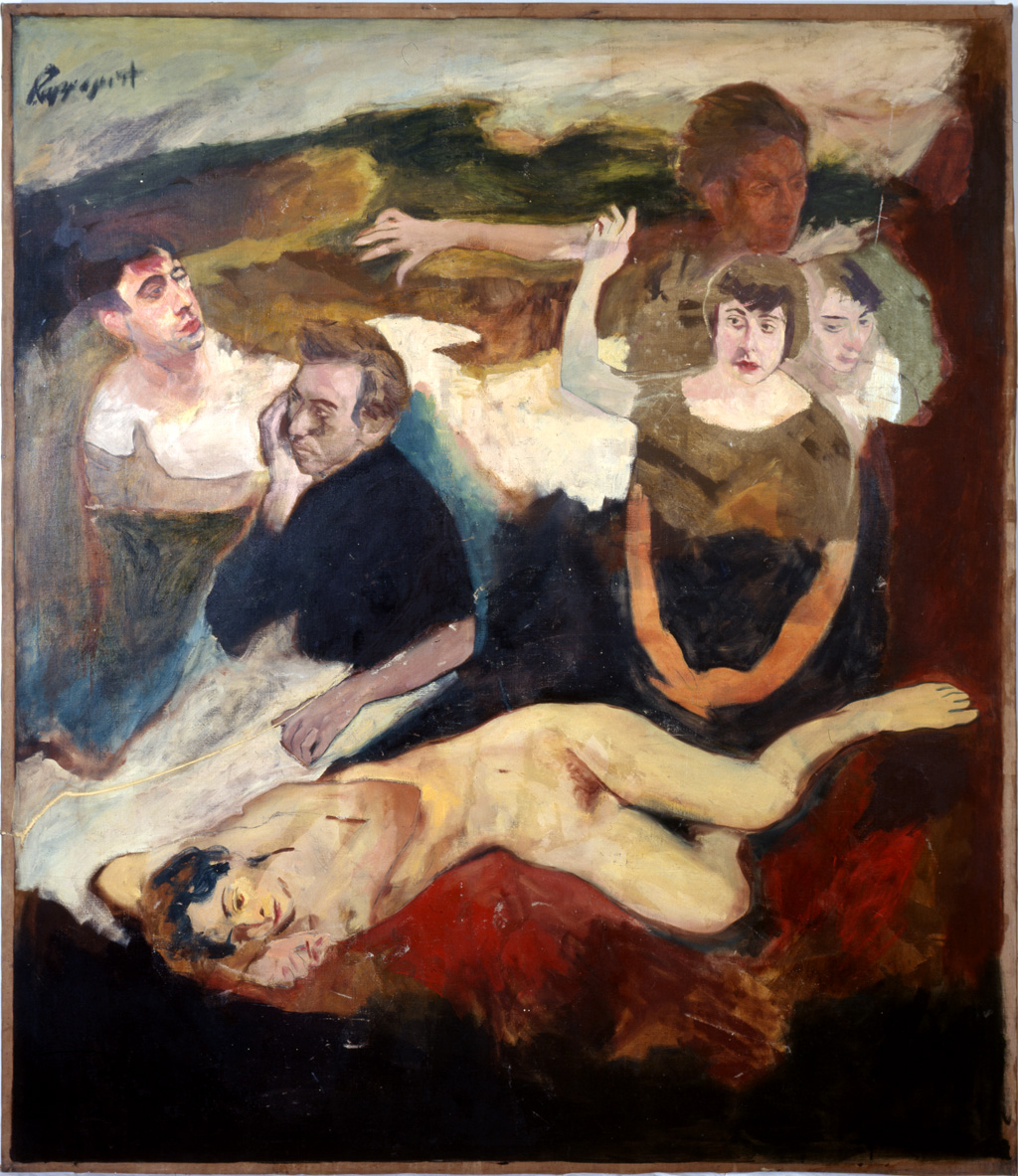 Jewess Accused 84"x72"